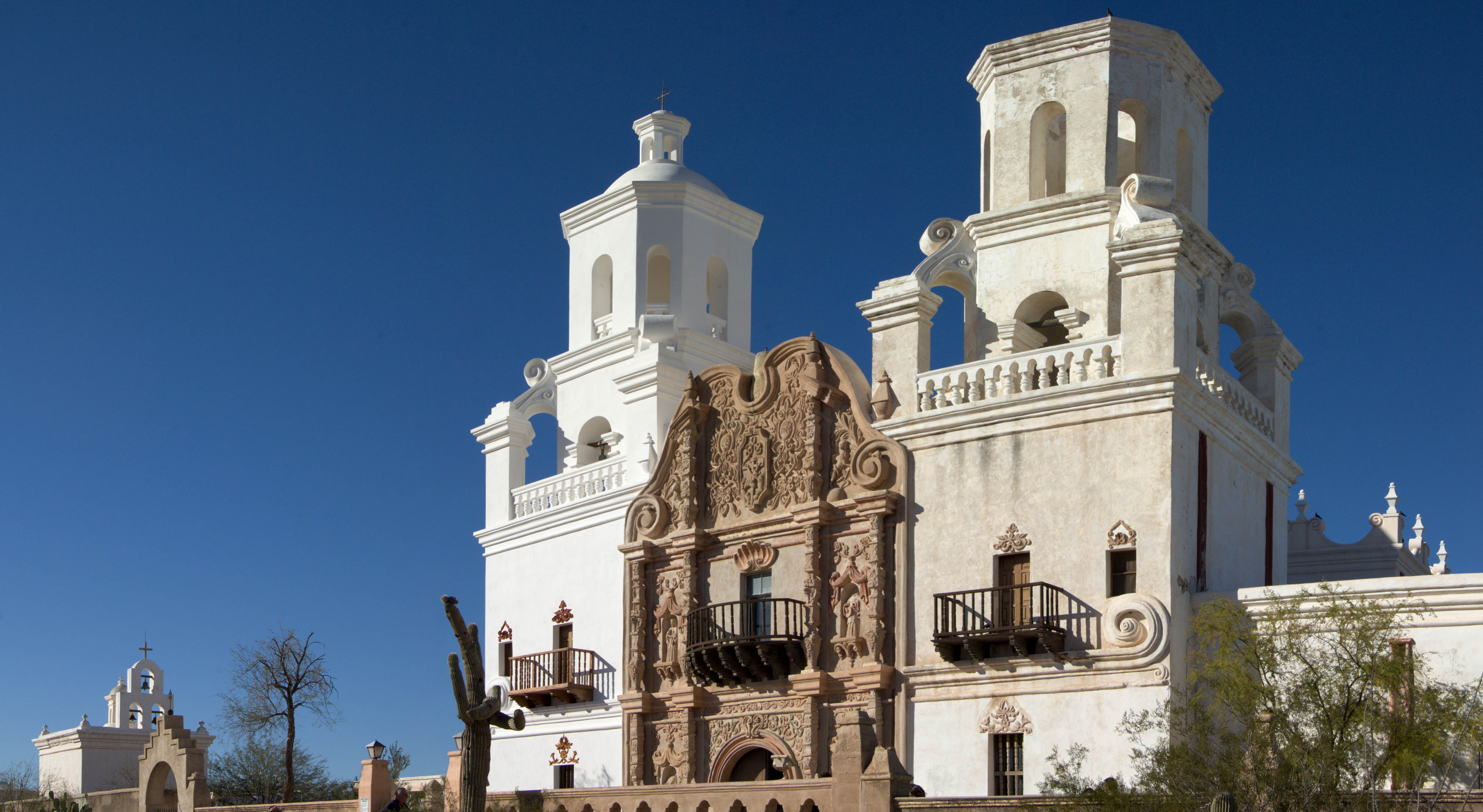 Exterior panoramic of the